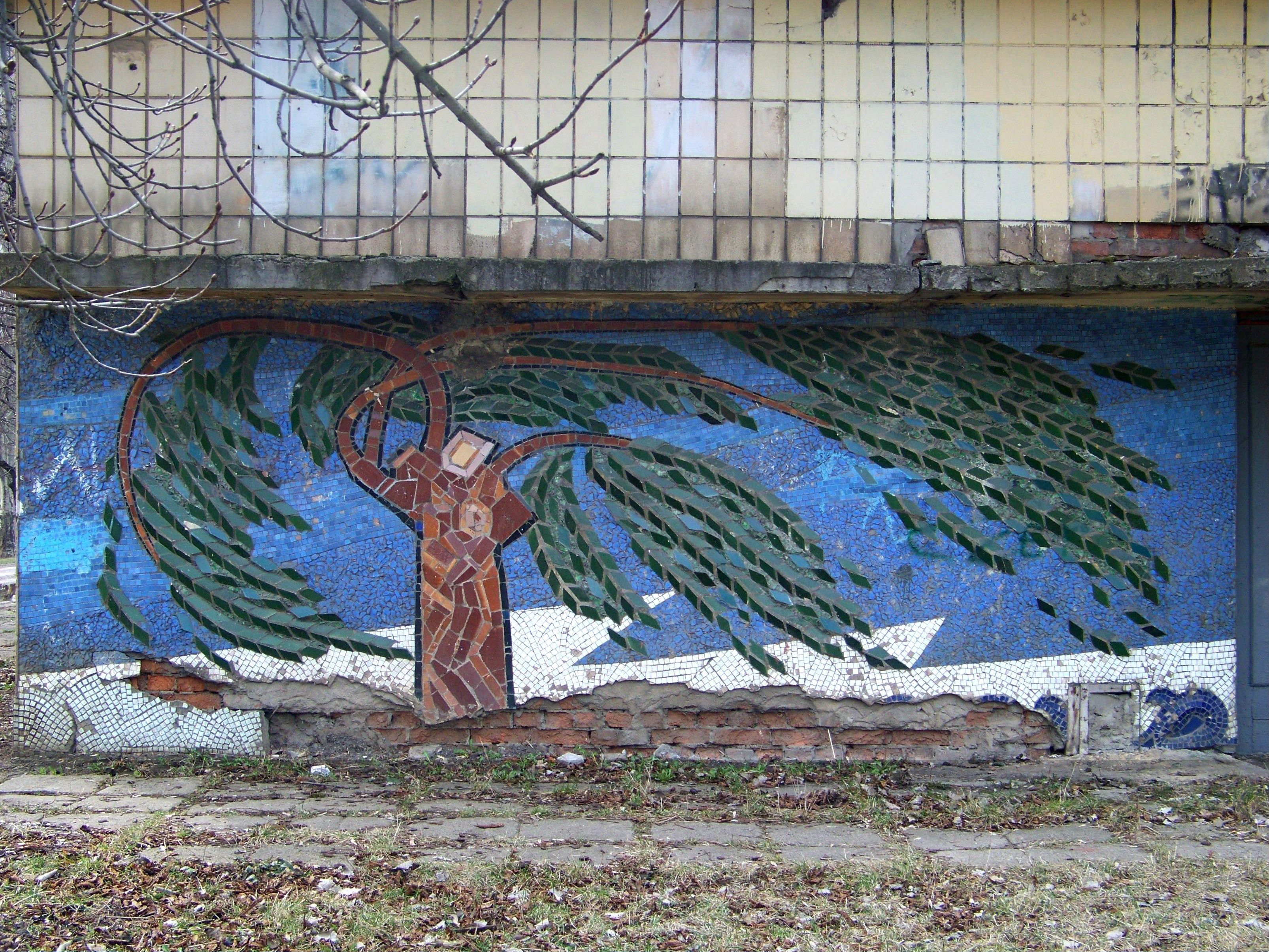 Mosaic Willow or Wind as a variant of school № 5 in Donetsk, Ukraine.